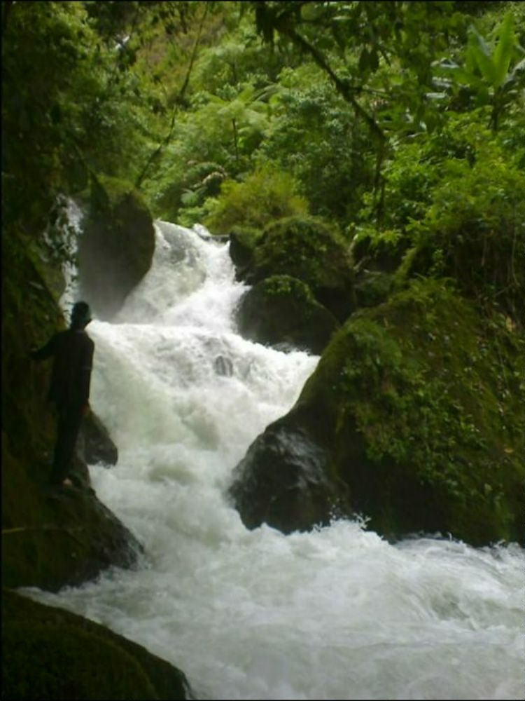 Amazing of Cibeet River.